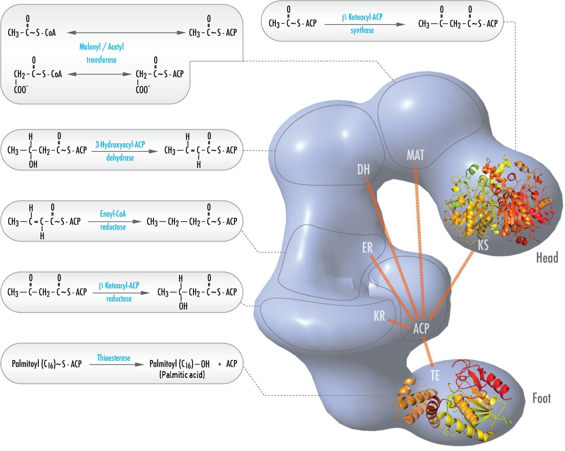 Fatty acid synthase (FAS) revised model with positions of polypeptides, three catalytic domains and their corresponding reactions, designed and produced by Kosi Gramatikoff user:kosigrim.